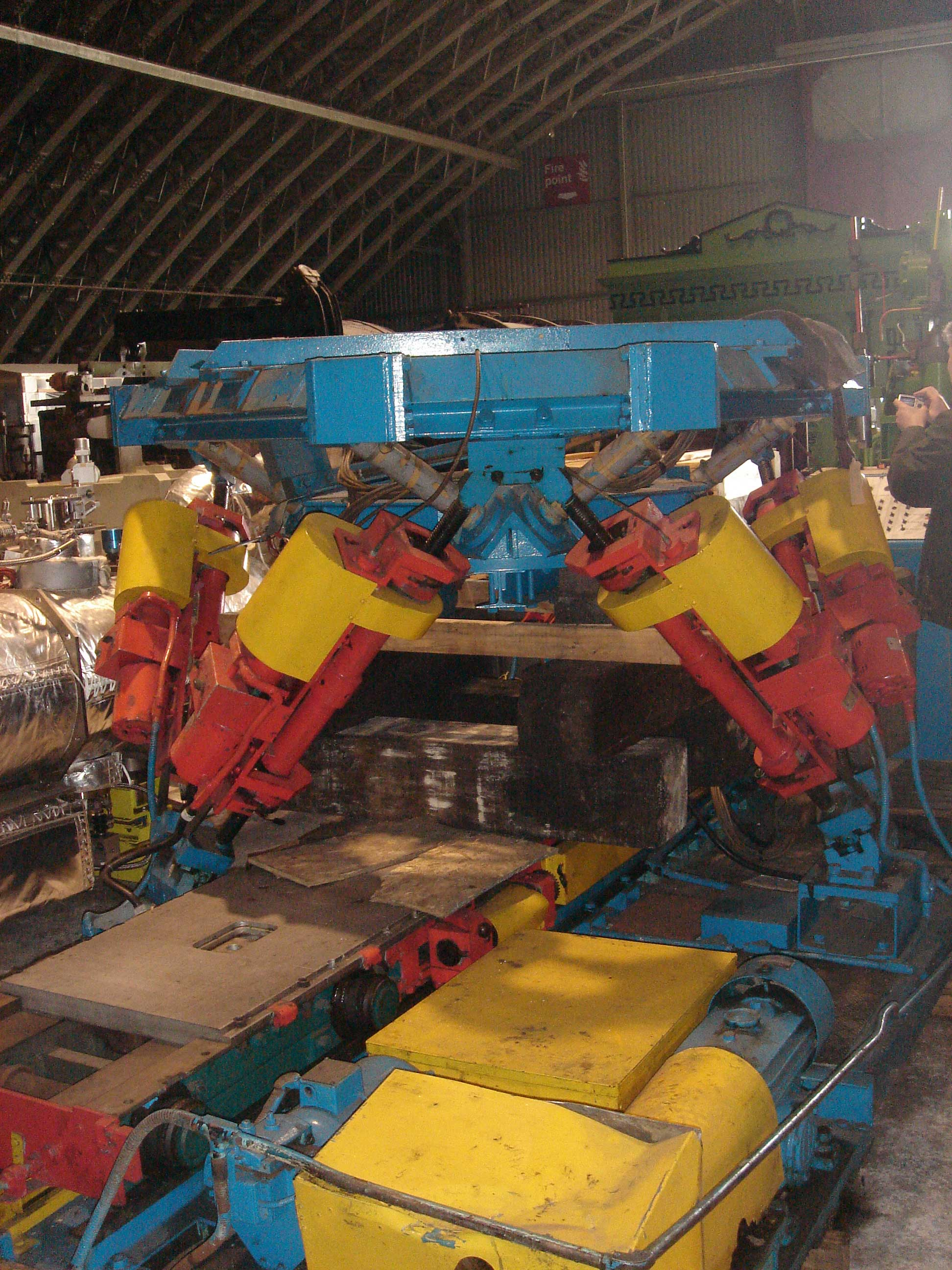 Gough's "Universal Tyre-testing Machine" photographed at the Wroughton storage facility, part of the Science Museum (London). Photographed March 2006.